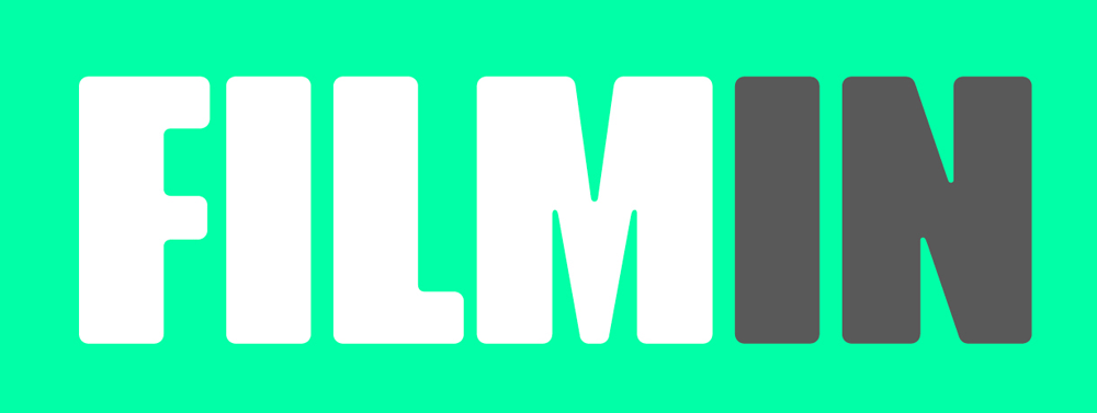 Filmin Logotype